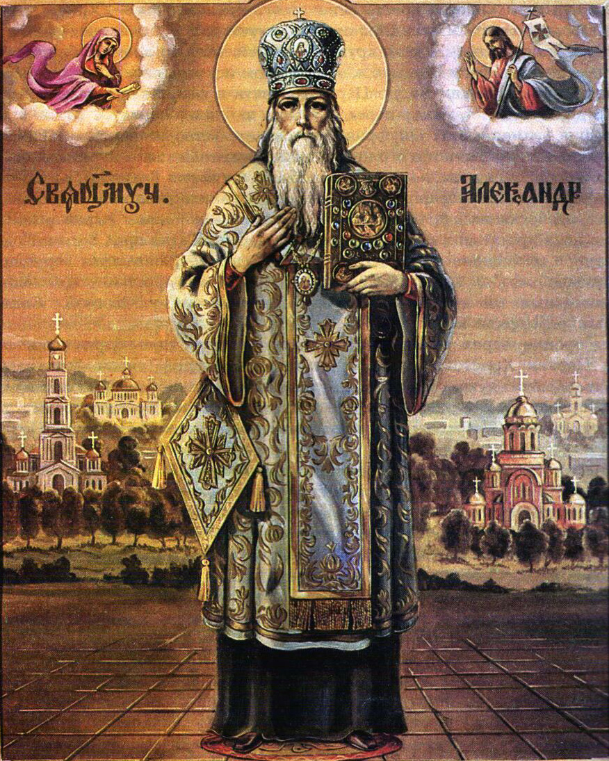 Icon of Hieromartyr Alexander (Petrovskogo)